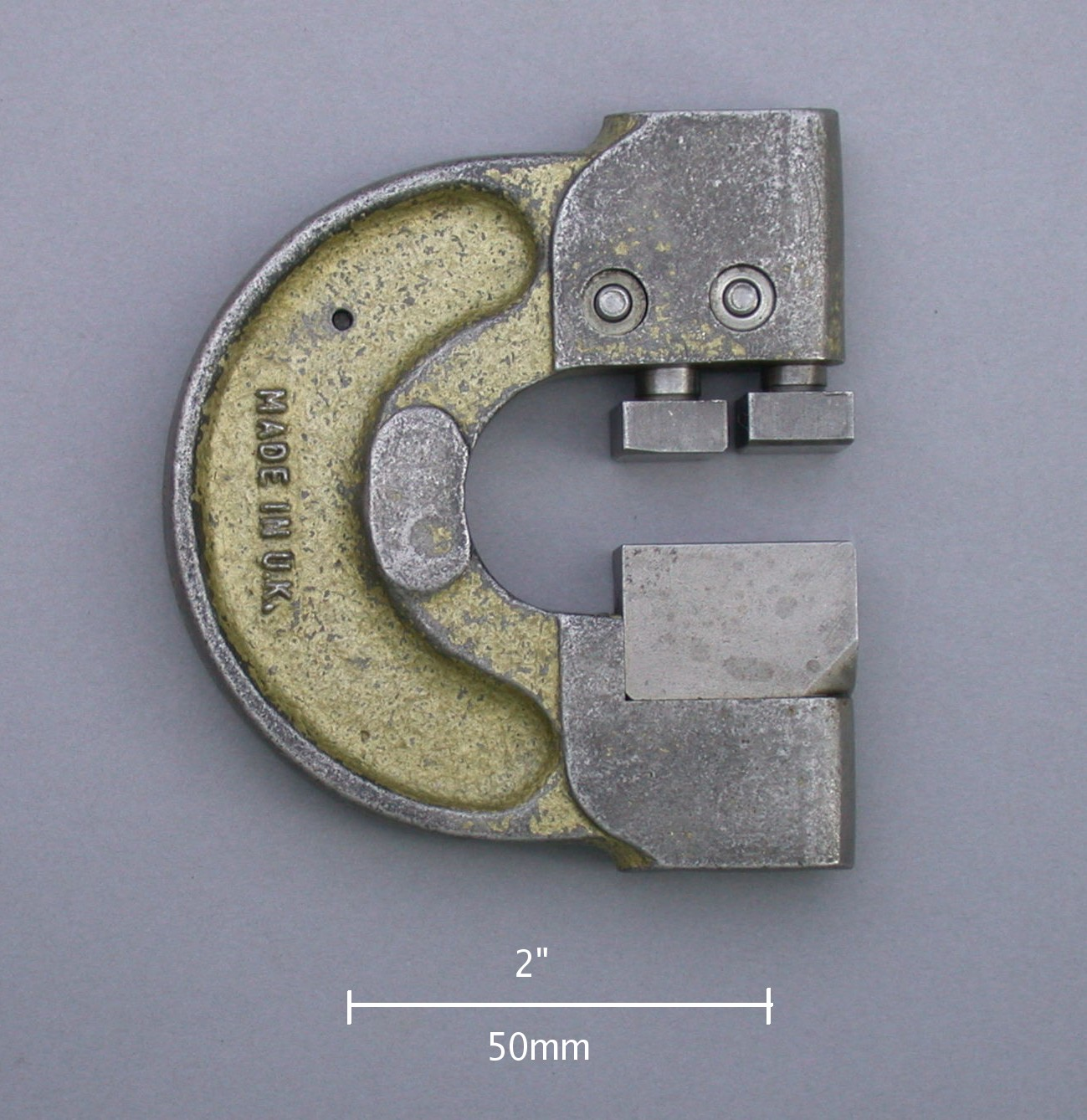 Gap style Go NoGo gauge, for external measurements (such as the diameter of a shaft being produced by a lathe)